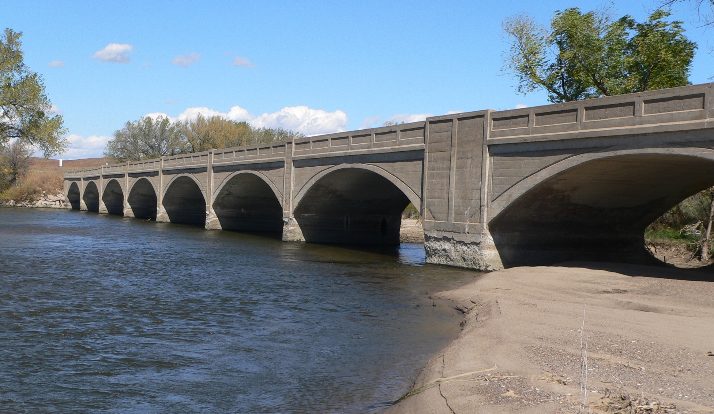 Northern portion of Sutherland State Aid Bridge, crossing the North Platte River north of Sutherland, Nebraska. View is from the west (upstream). Six more arch spans are completely outside the picture to the right.